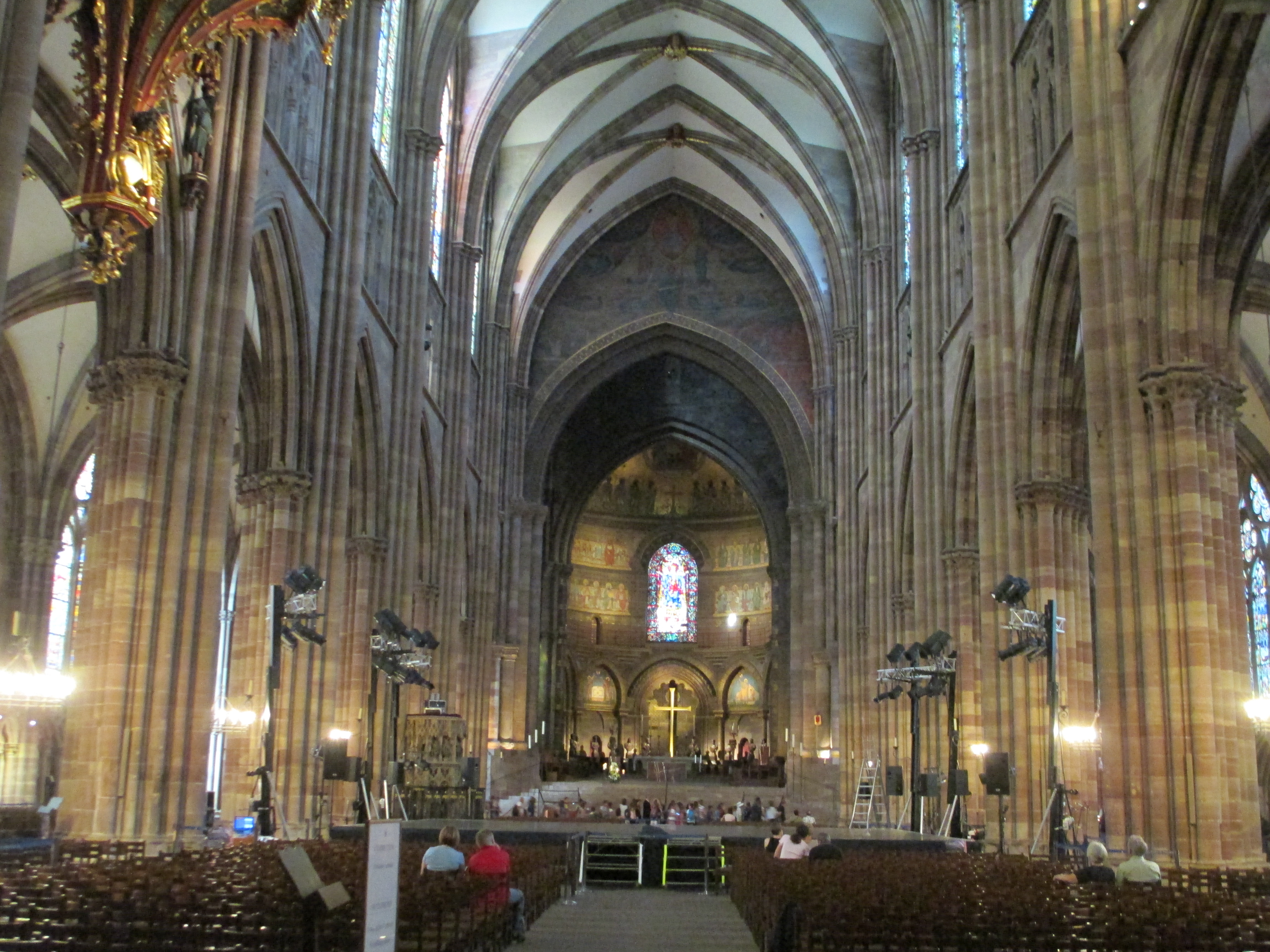 Choir (architecture) of Cathédrale Notre-Dame, Strasbourg